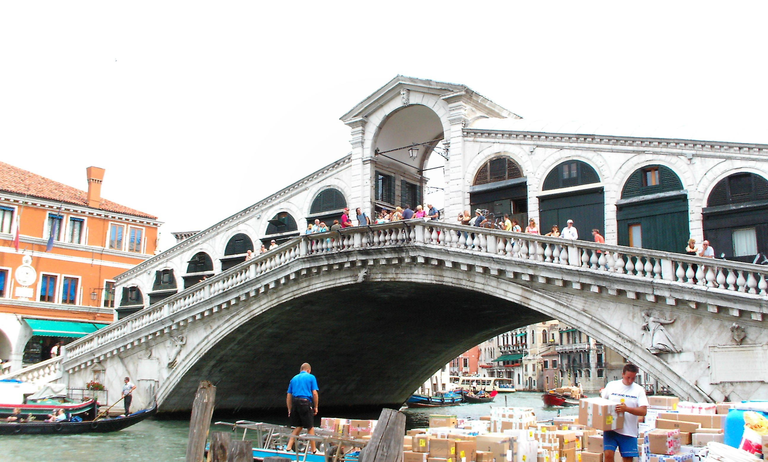 Rialto Bridge, Venice, Italy